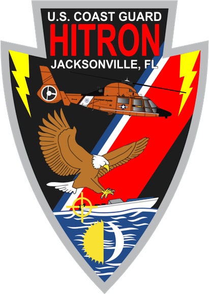 HITRON Jacksonville Logo